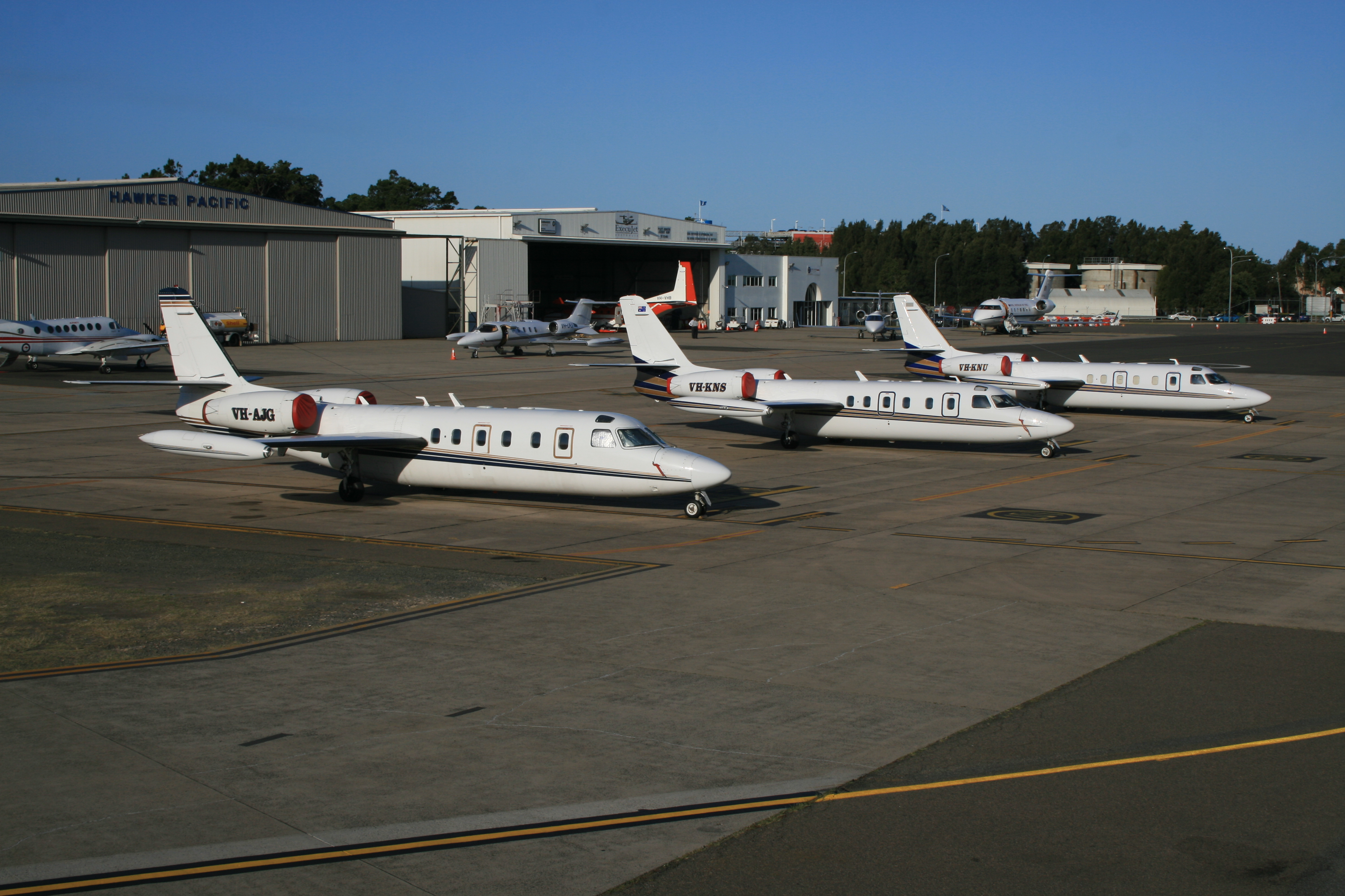 Three of Pel-Air's IAI Westwinds at Sydney airport. Digital photo of IAI 1124 Westwinds VH-AJG, VH-KNS and VH-KNU.